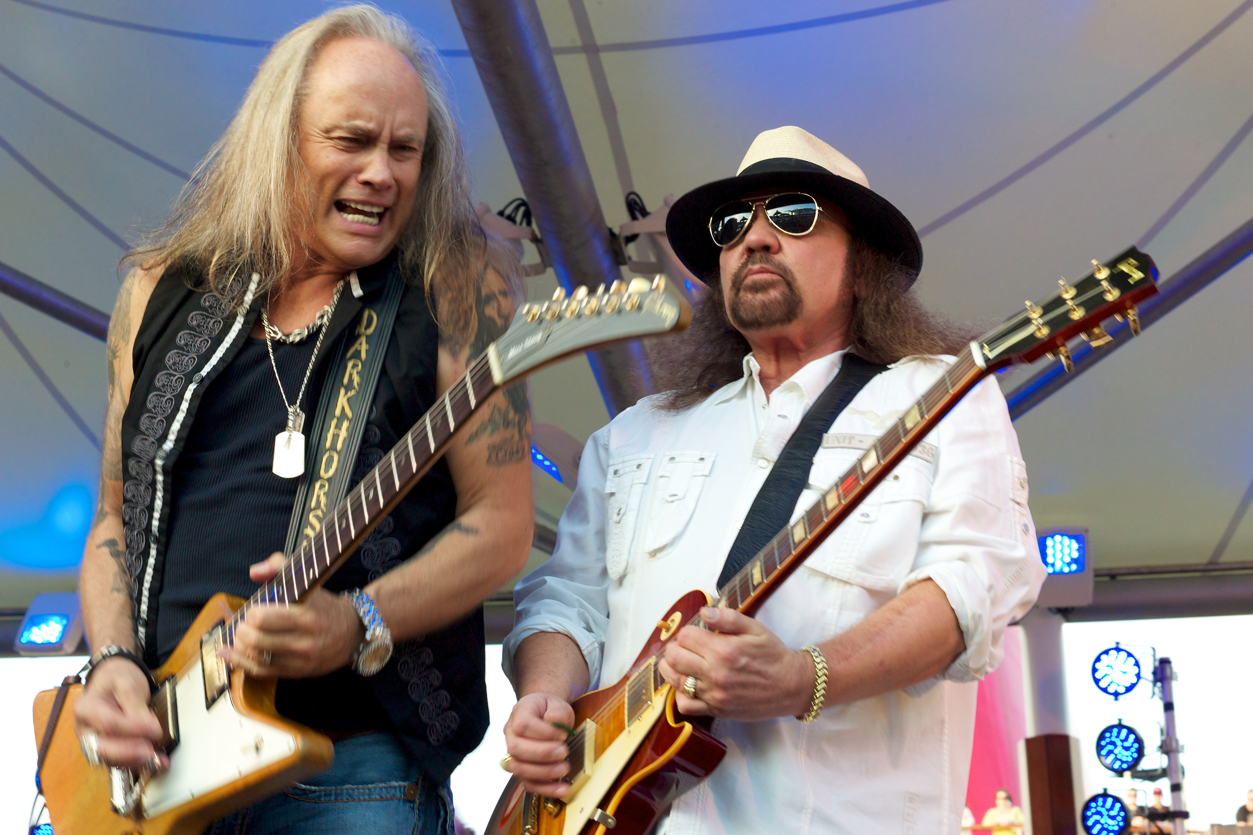 Rickey Medlocke y Gary Rossington, guitarrists of Lynyrd Skynyrd, performing live.